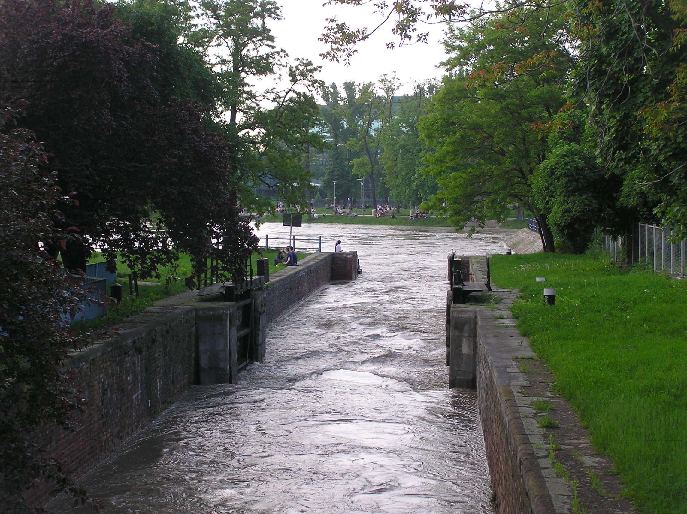 Wrocław, Piaskowa Lock